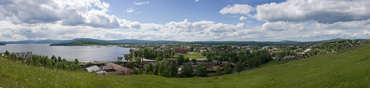 Chernoistochinsk